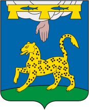 Pskov rayon (Pskov oblast), coat of arms